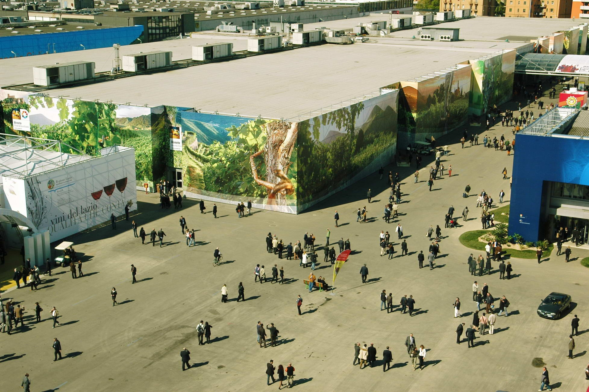 Visitors outside some of the exhibitions halls of the Italian wine expo VinItaly in Verona.